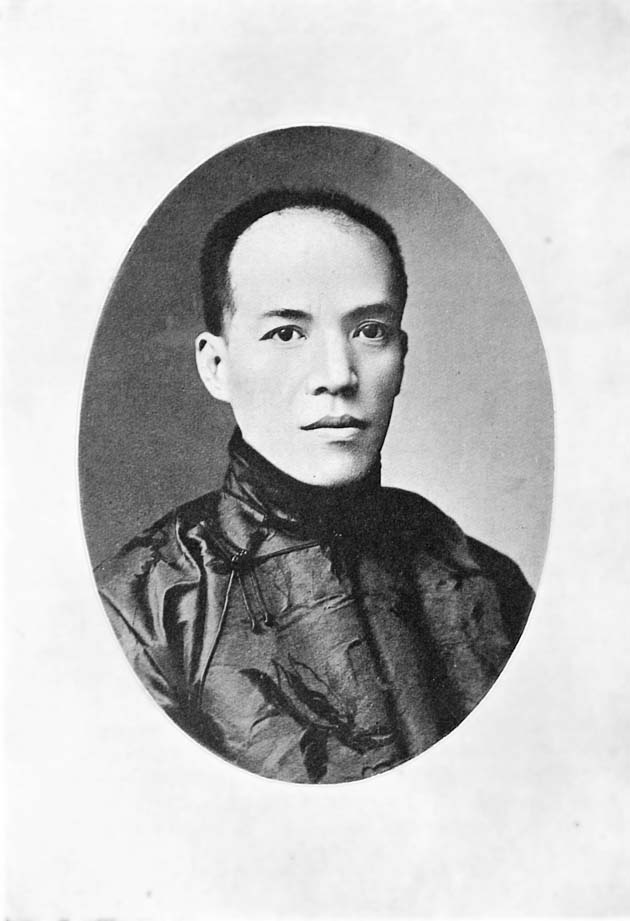 The Scholar Liang Chi-chao, sometime Minister of Justice, and the foremost "Brain" in China.